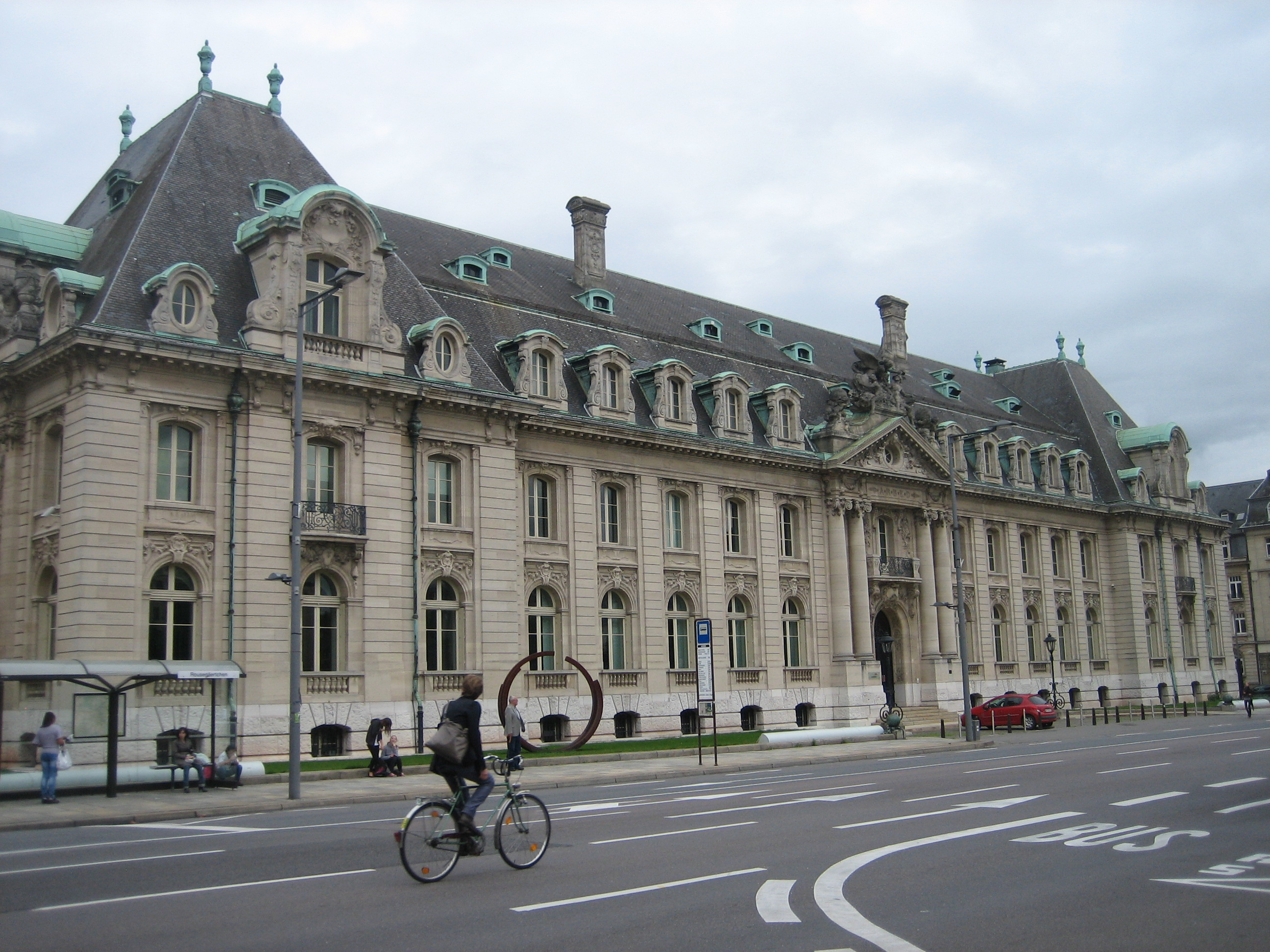 Former headquarters of ARBED (Aciéries Réunies de Burbach Eich Dudelange) in Luxembourg City. Architect: René Théry (1869, Douai - 1922, Paris).